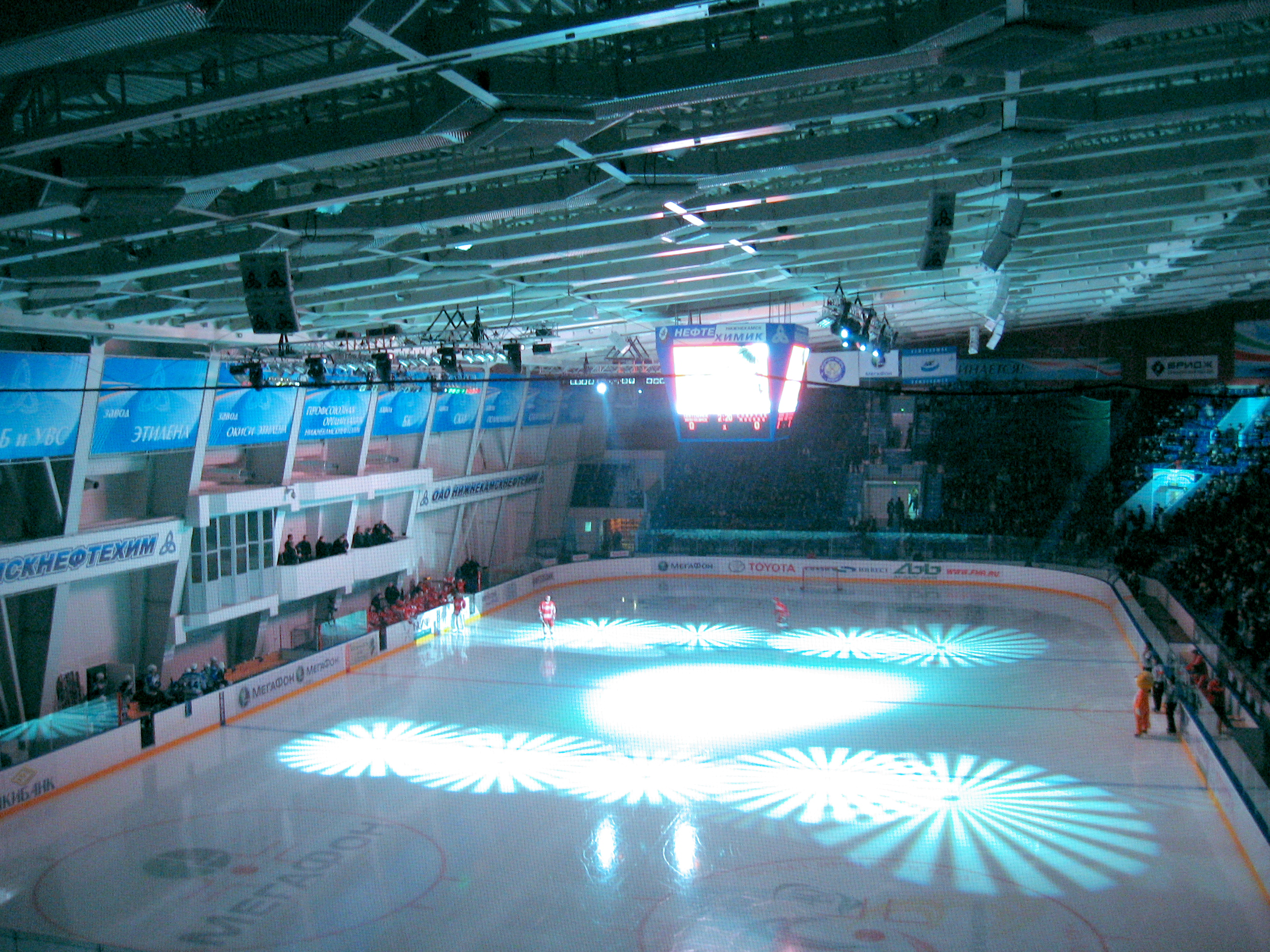 Ice sports arena SKK "Neftekhimik"